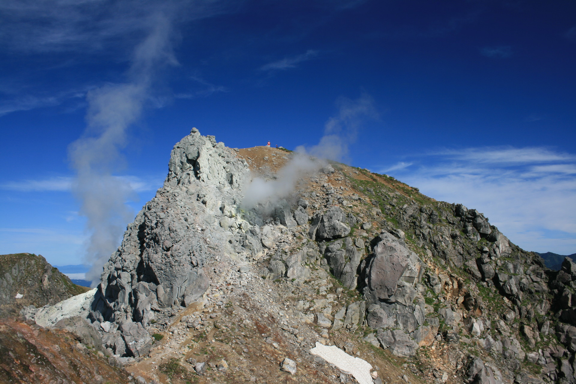 North peak of Mount Yake